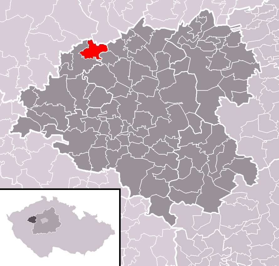 Location of Děkov municipality within Rakovník District and (identical) administrative area of Rakovník as a Municipality with Extended Competence.